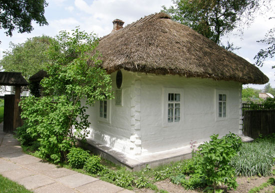 Музей О. Довженка